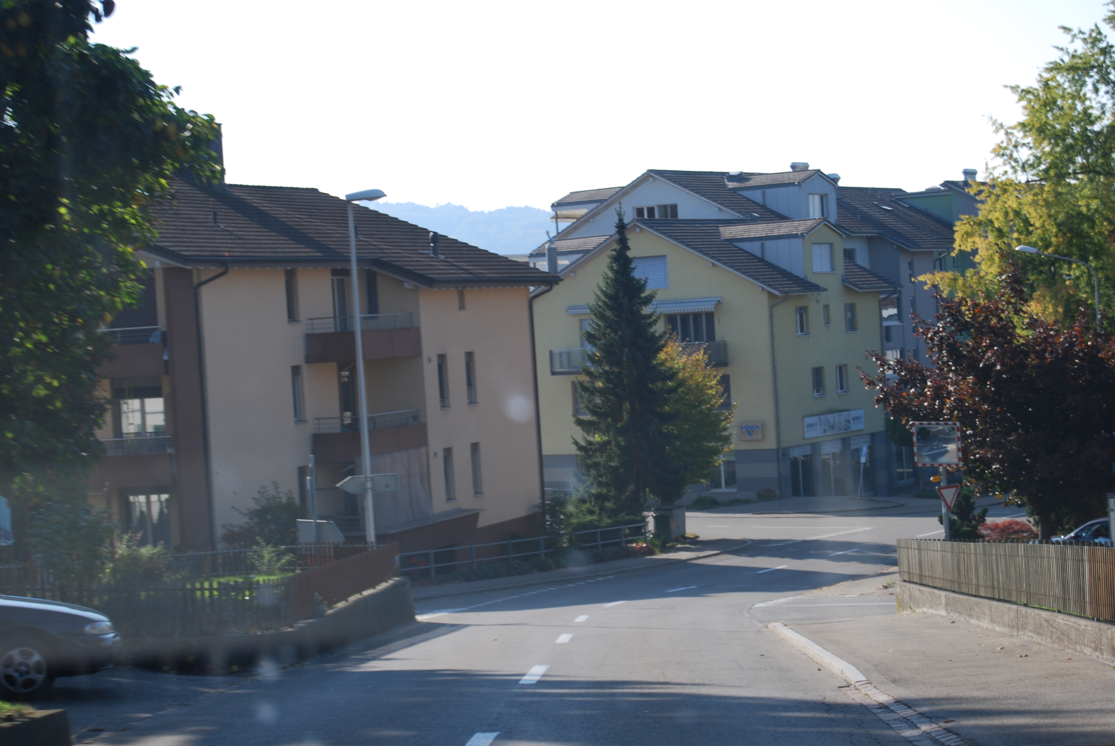 Fahrwangen, canton of Aargau, Switzerland